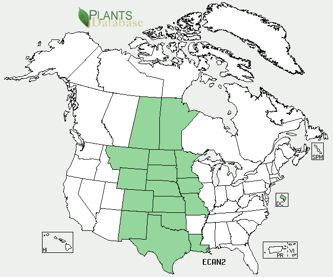 Distribution map of Echinacea angustifolia (Coneflower) — native range in the Great Plains and prairies of the central and near-west United States, and of central Canada. A traditional Native American—contemporary herbalism medicinal plant.